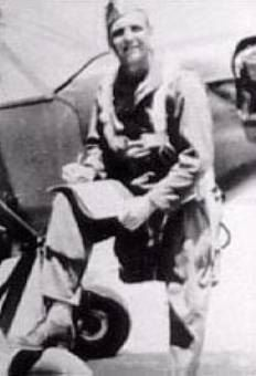 Flight Officer Jackie Coogan records a flight time after a hop in an L-2 liaison aircraft.